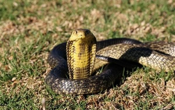 A young forest cobra (Naja melanoleuca)